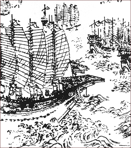 Chinese woodblock print, representing Zheng He's ships